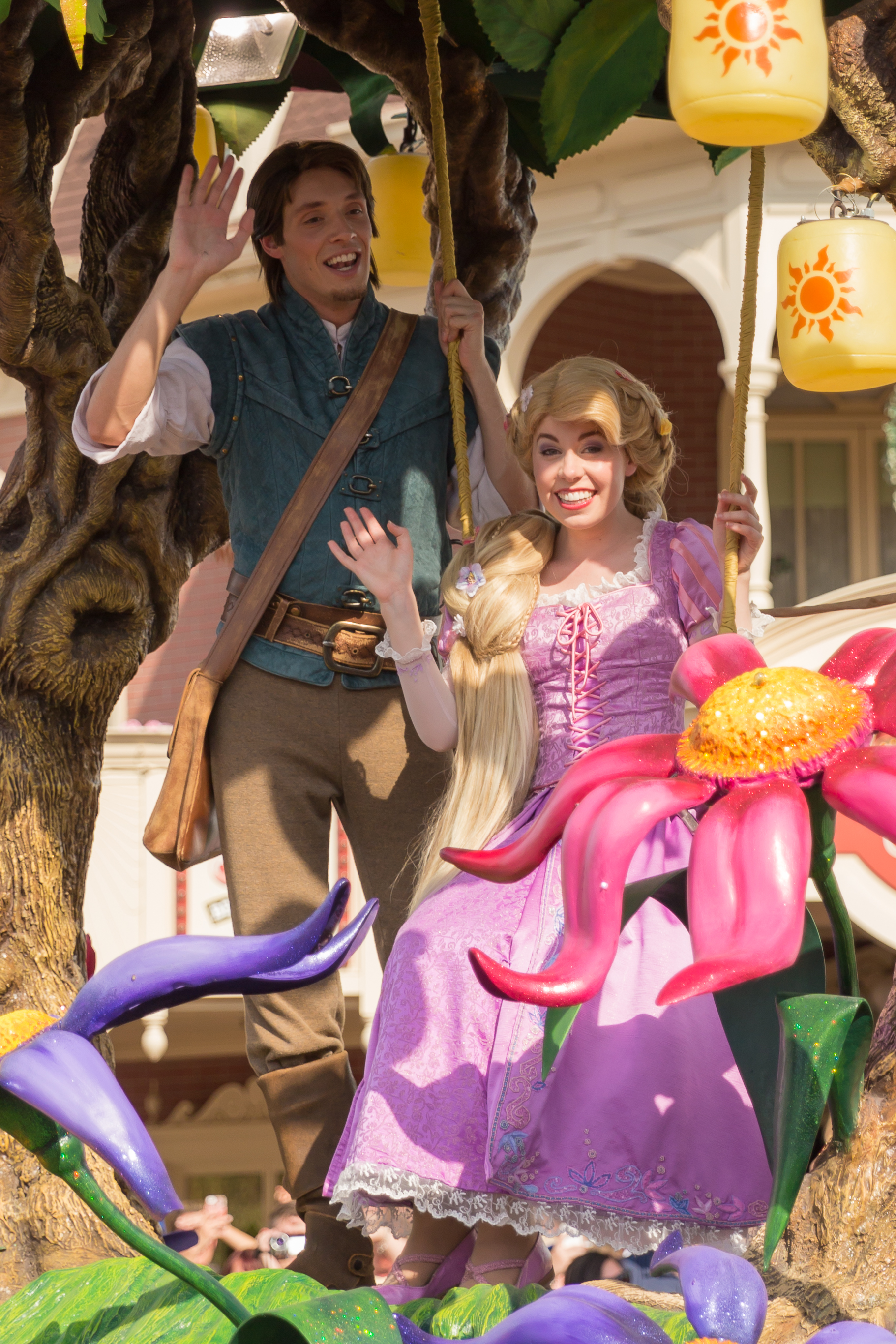 Rapunzel and Flynn Rider a in the Disney Magic On Parade in Disneyland Paris.